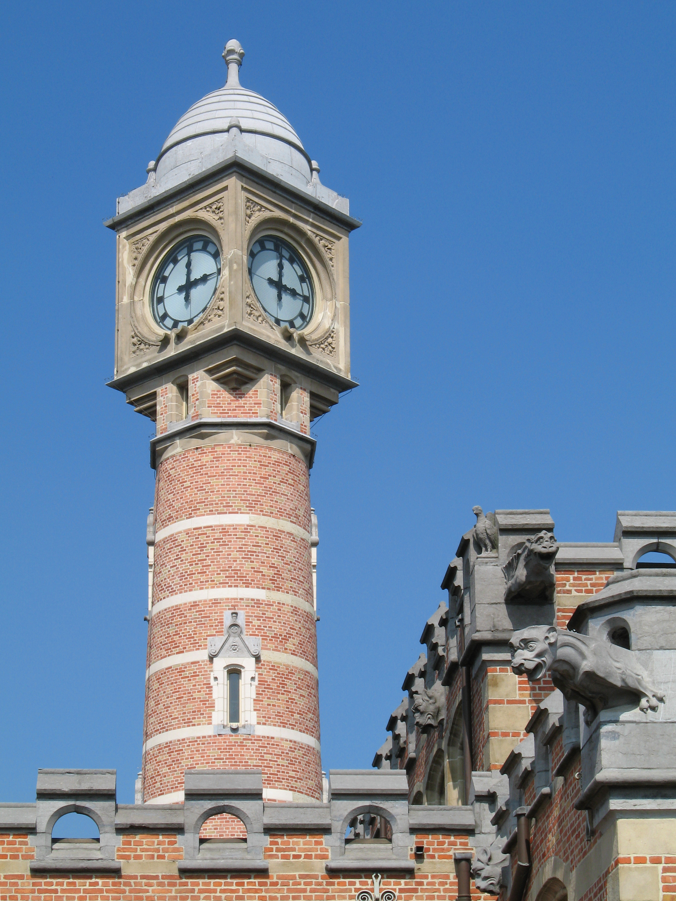 The train station of Gent-Sint-Pieters, Ghent, Belgium (detail)